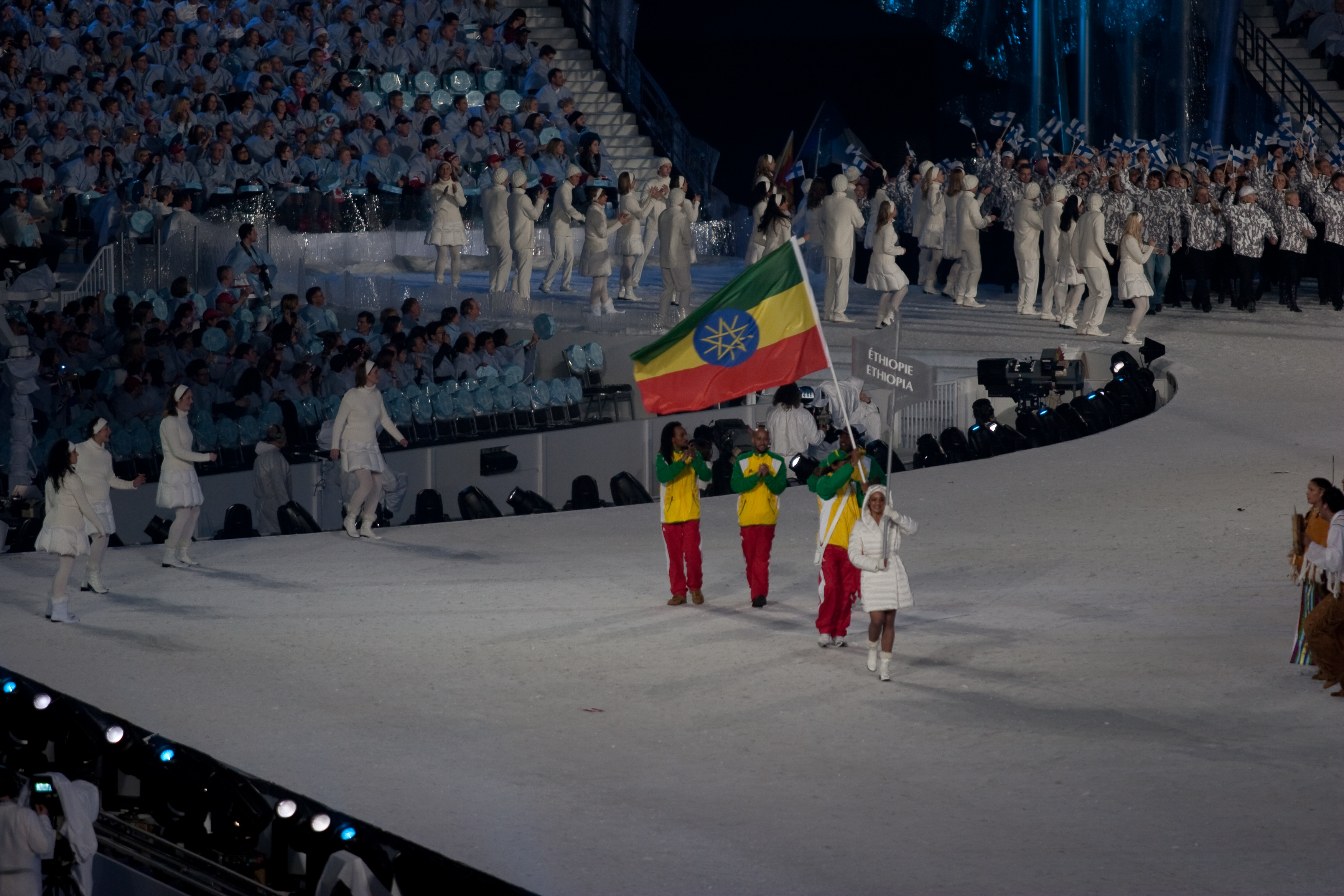 The athletes from Ethiopia entering the stadium at the opening ceremonies of the 2010 Winter Olympics